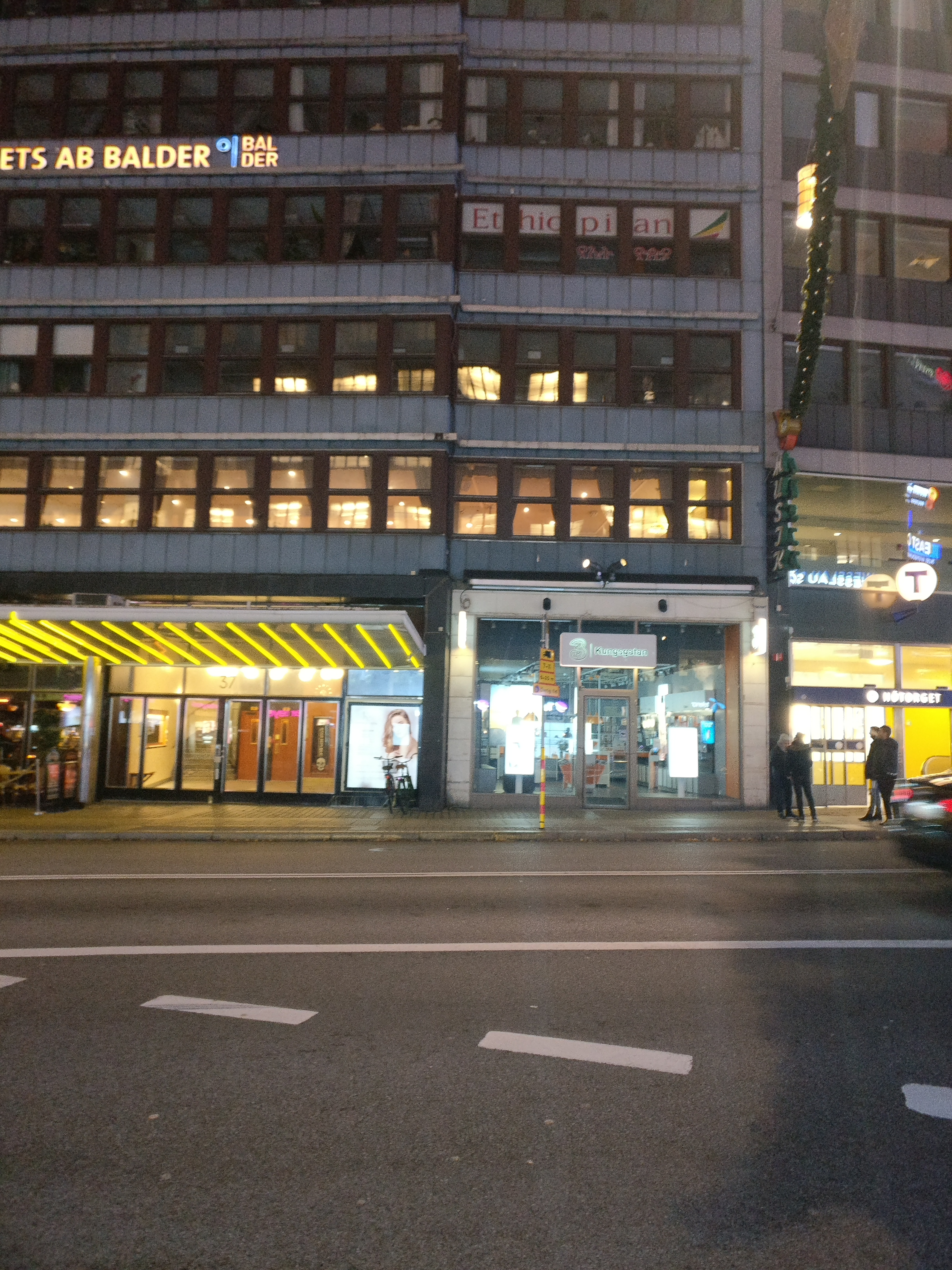 Ethiopian airlines Stockholm offices